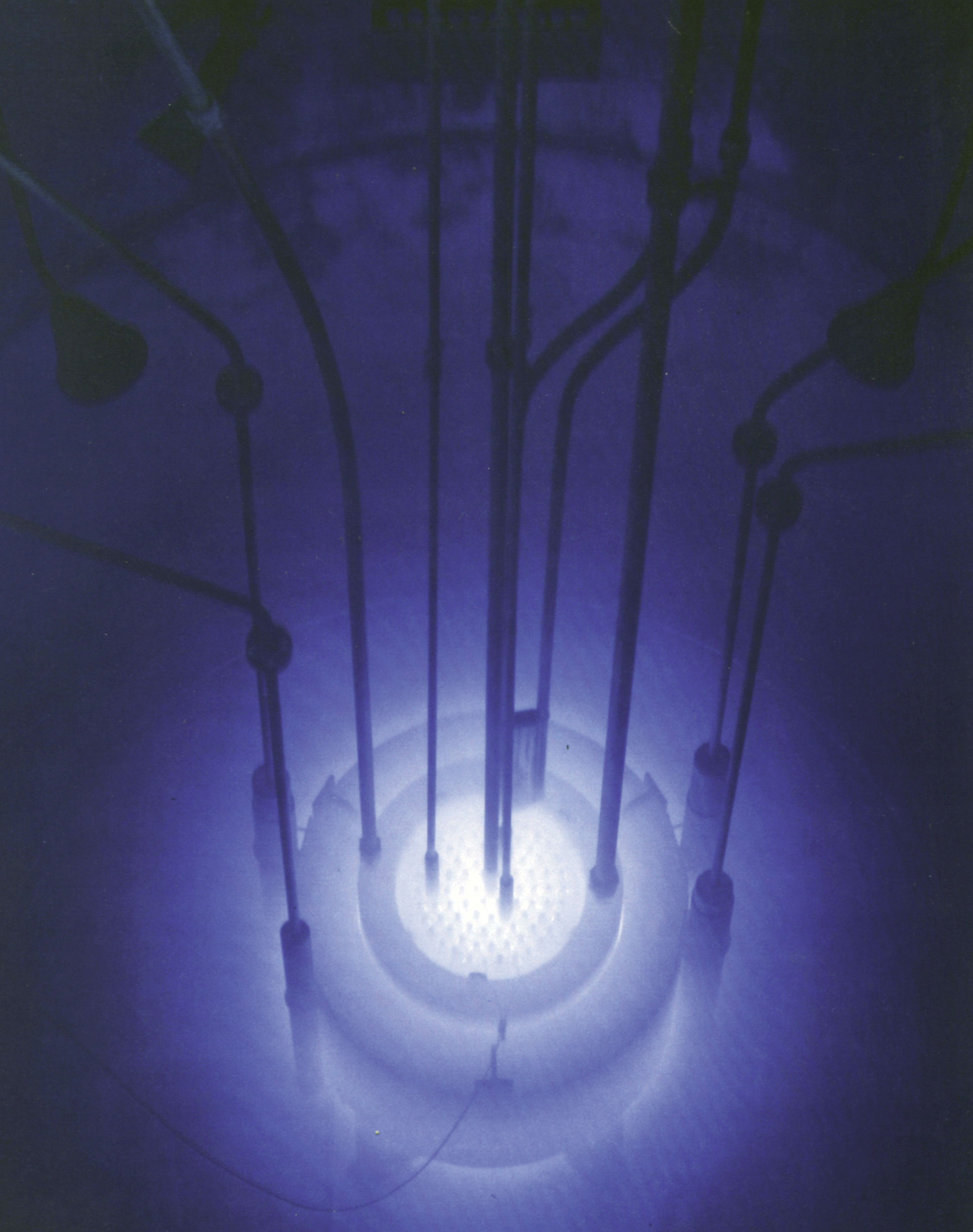 NRC picture of Cerenkov radiation surrounding the underwater core of the Reed Research Reactor, Reed College, Oregon, USA.